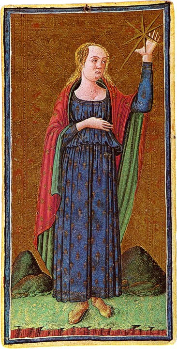 The Star card from the Visconti-Sforza Tarot deck.